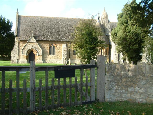 The nave and south porch of the "new" former parish church of All Saints, Nuneham Courtenay, Oxfordshire, seen from the south